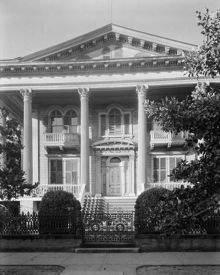 View of the exterior of the Bellamy Mansion, Wilmington, New Hanover County, North Carolina, by the American photographer and photojournalist Frances Benjamin Johnston, circa 1935-1938. 8 x 10 safety film negative is part of the Johnston archives at the Library of Congress, to which the photographer bequeathed her works in perpetuity, hence there are no restrictions on publication, as per the Library of Congress website. Image courtesy of the Prints and Photographs Division, Library of Congress, Washington, D.C.